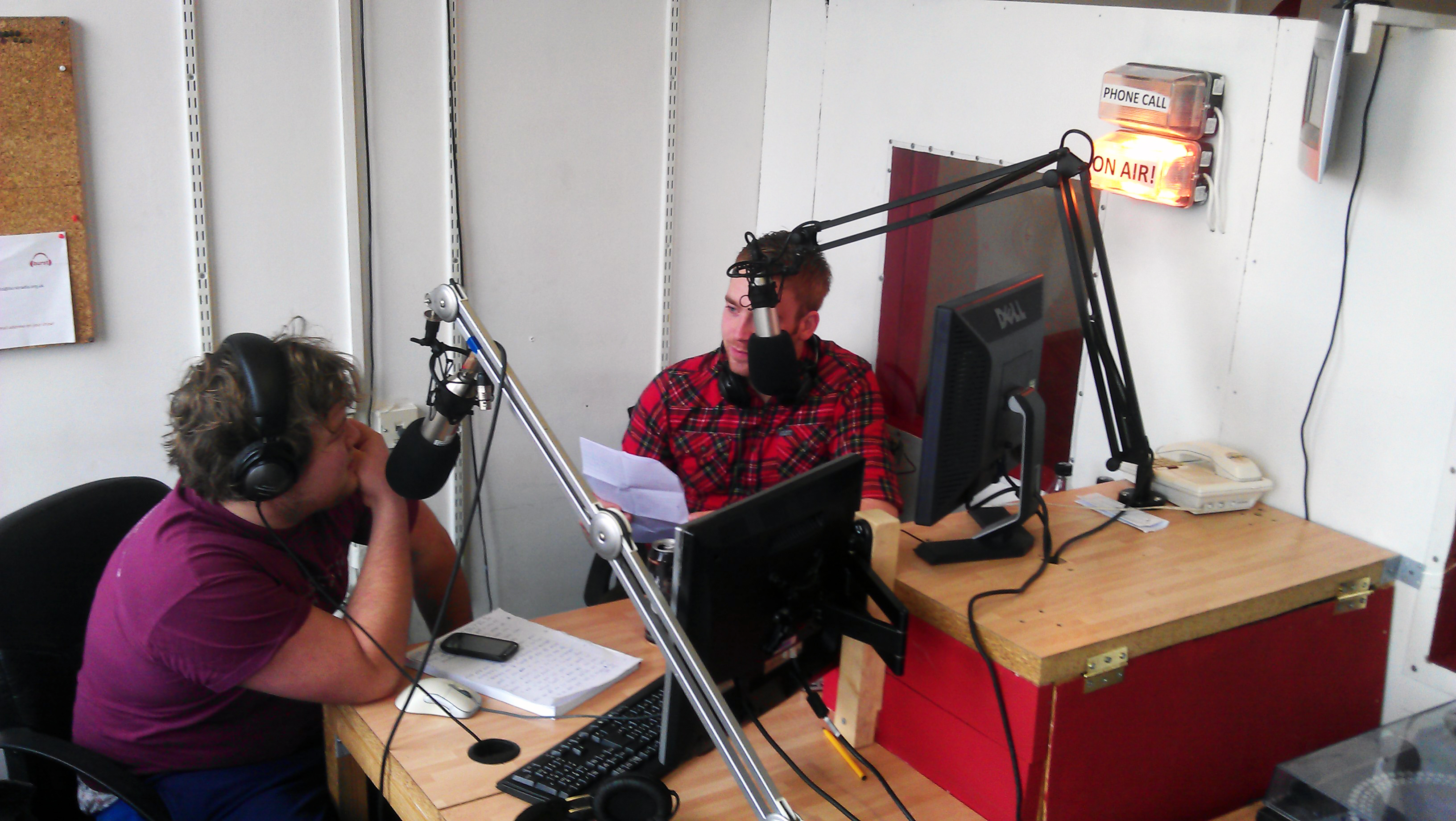 Burst presenters in the studio on the 3rd floor of the Students' Union, March 2012